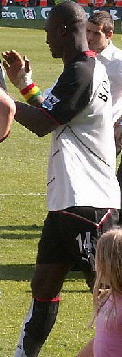 Papa Bouba Diop. Image cropped from original at flickr.